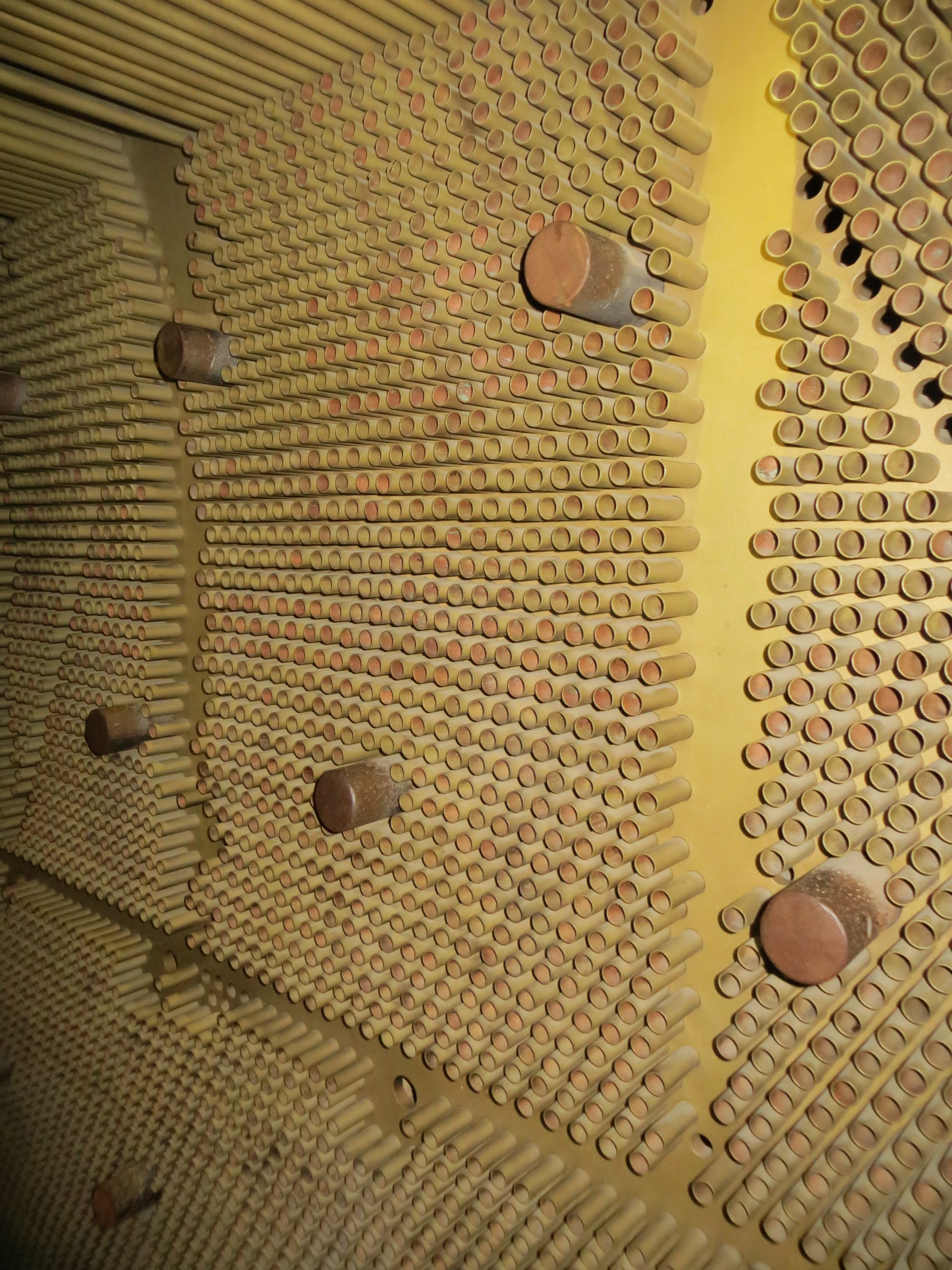 Originally installed in a Bolton power station in 1923. Steam from the turbine was drawn into this condenser and cooled by the thousands of small pipes filled with cold, river water, before recycling.